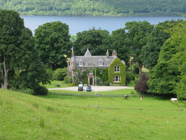 Ardvorlich House Viewed from the track up Ben Vorlich with Loch Earn in the background.